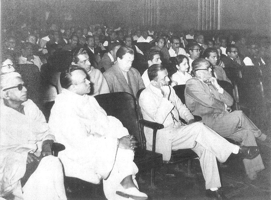 Revival meeting of Calcutta Film Society in Kolkata, 1956. Seated in 4th row is Diptendu Pramanick; 2nd row (L to R) are Satyajit Ray, Robert Hawkins and Arundhati Devi. In first row are (L to R) Harindranath Chattopadhyay, Debaki Bose... plz add